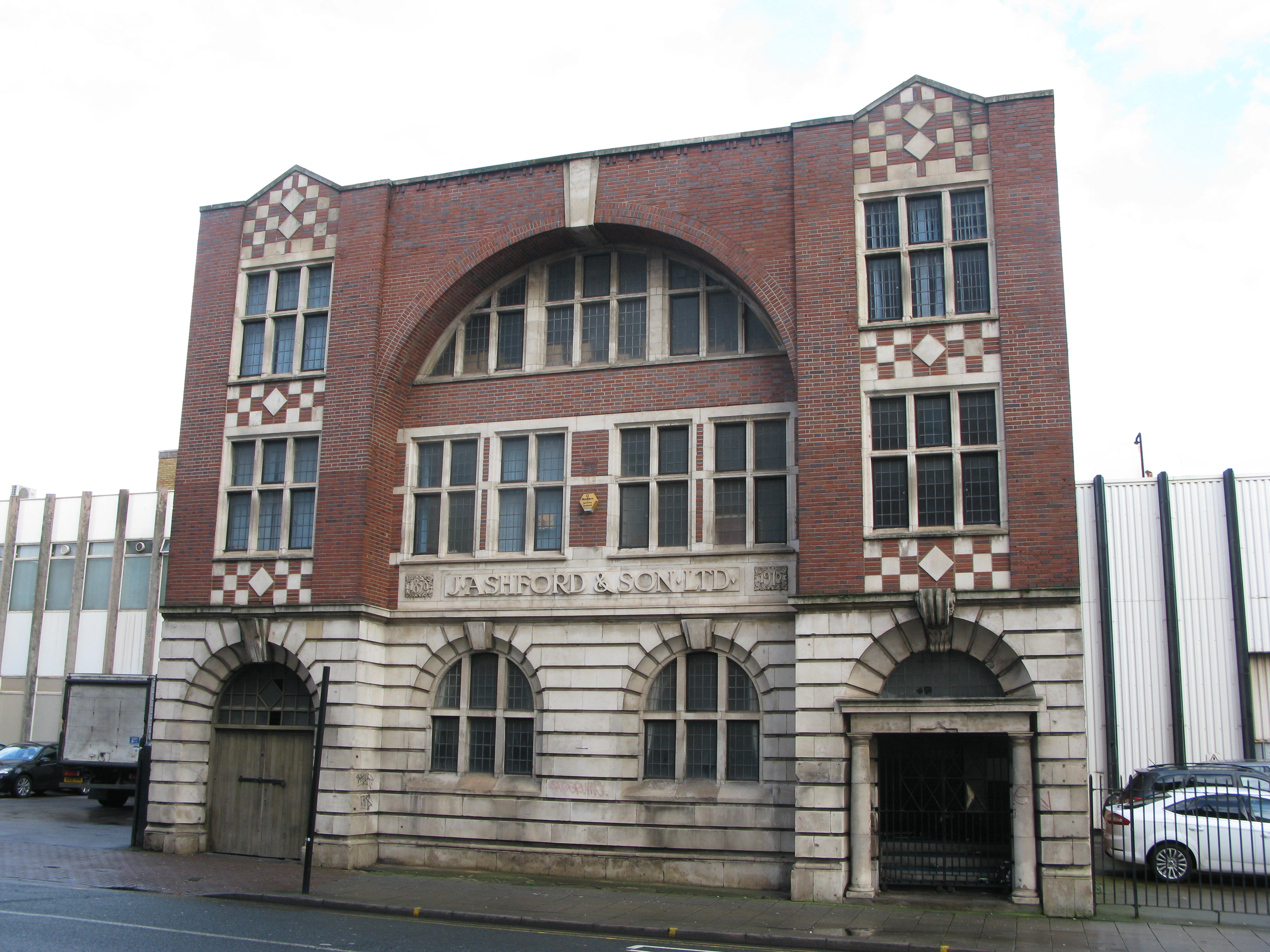 Grade II* English Heritage Ref 1075540